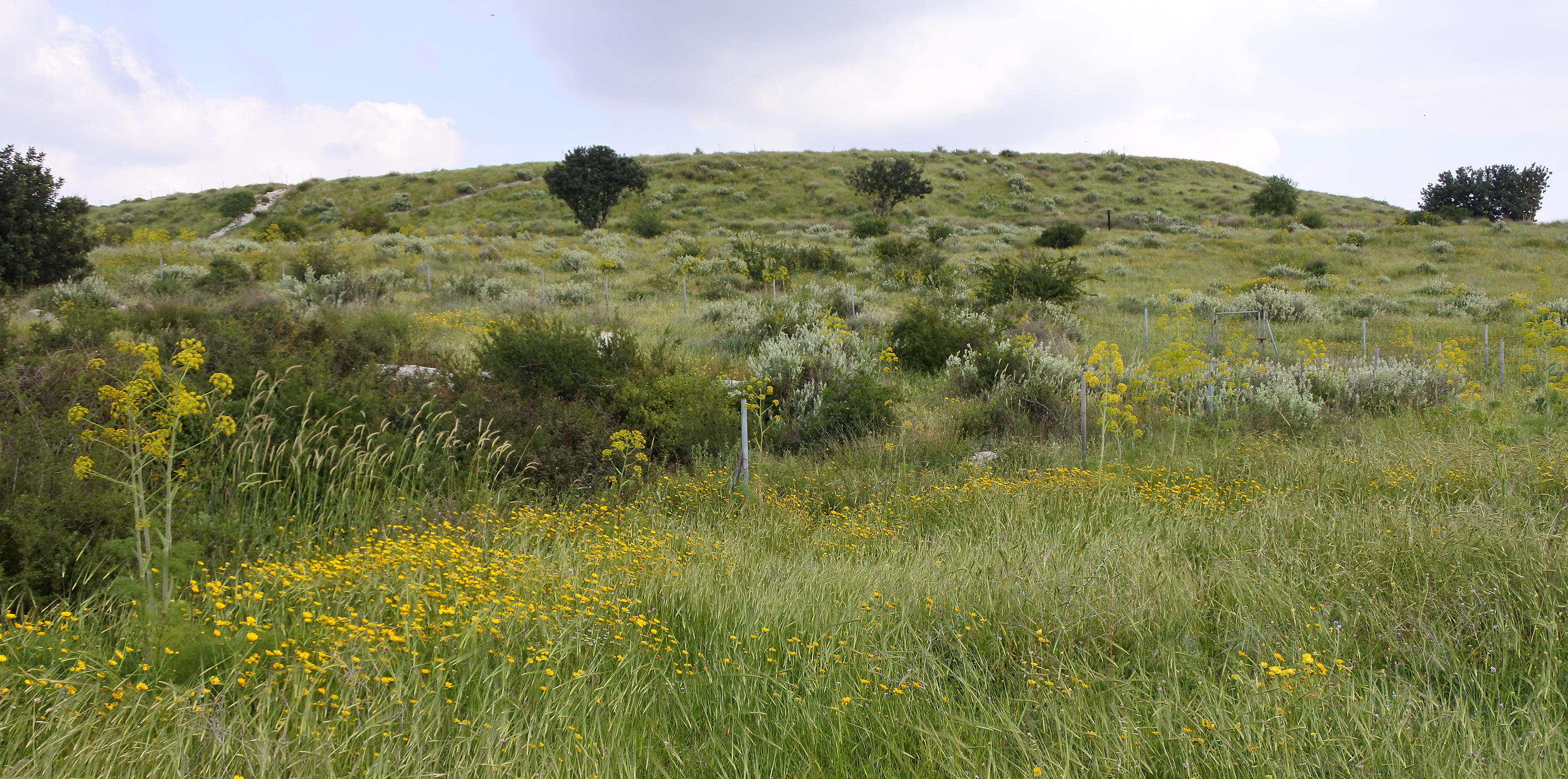 Tel Maresha, central Israel.